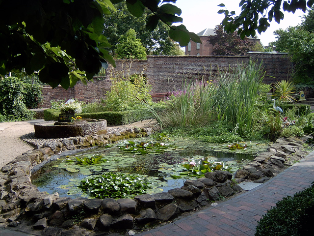 Walled Garden, Bewdley Museum The beautiful walled garden at the rear of the Bewdley Museum.